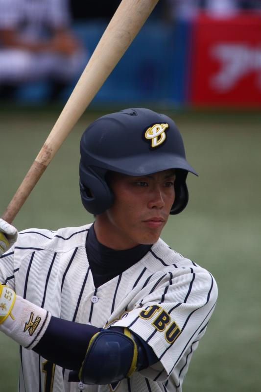 Ryo Miki, infielder of the Jobu University Baseball Club.